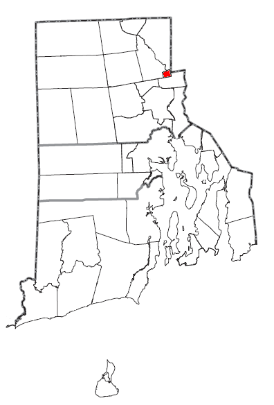 Map of the municipalities of the U.S. state of Rhode Island, with the city of Central Falls highlighted in red.